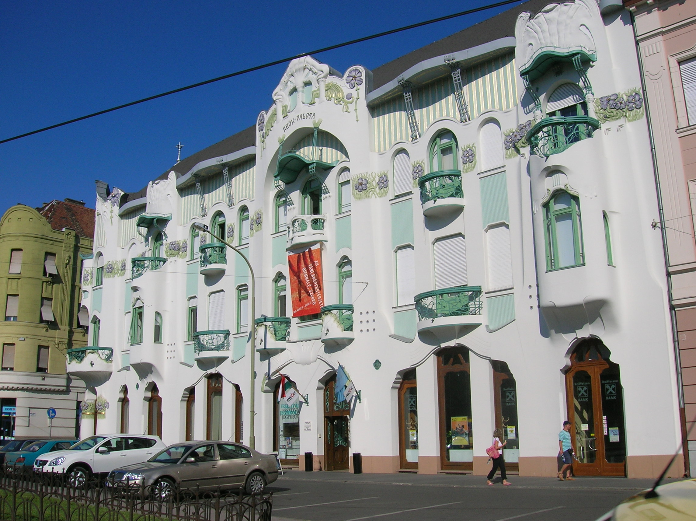 REÖK Palace, Szeged